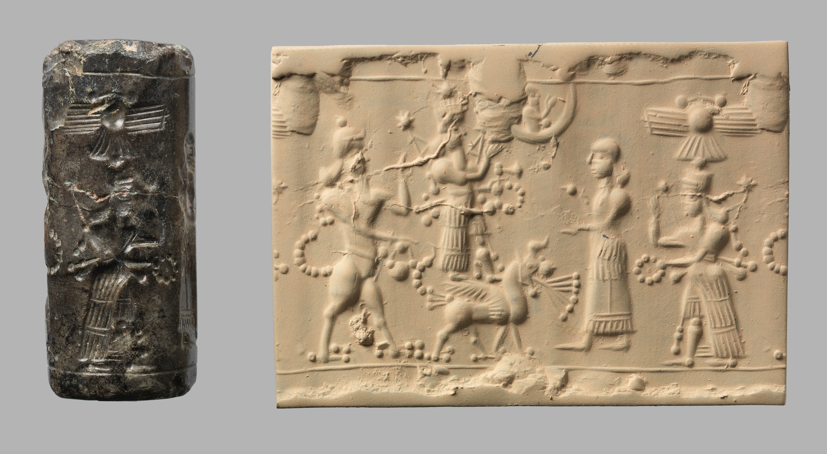 Assyrian; Cylinder seal; Stone-Cylinder Seals